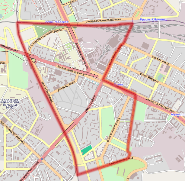 The map of Sokol district of Moscow